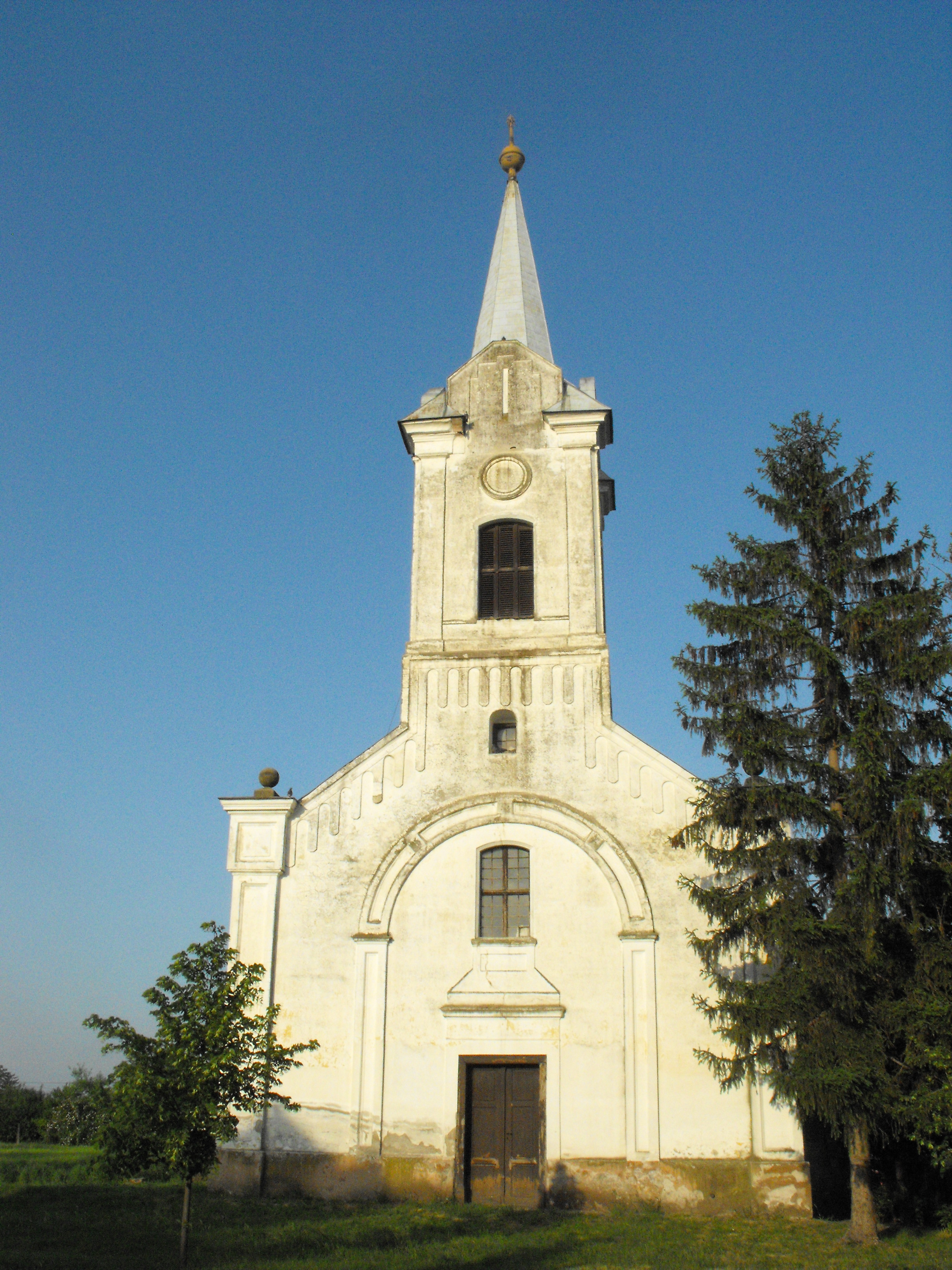 Lutheran church in Ambrózfalva, Hungary, built between 1862 and 1863.